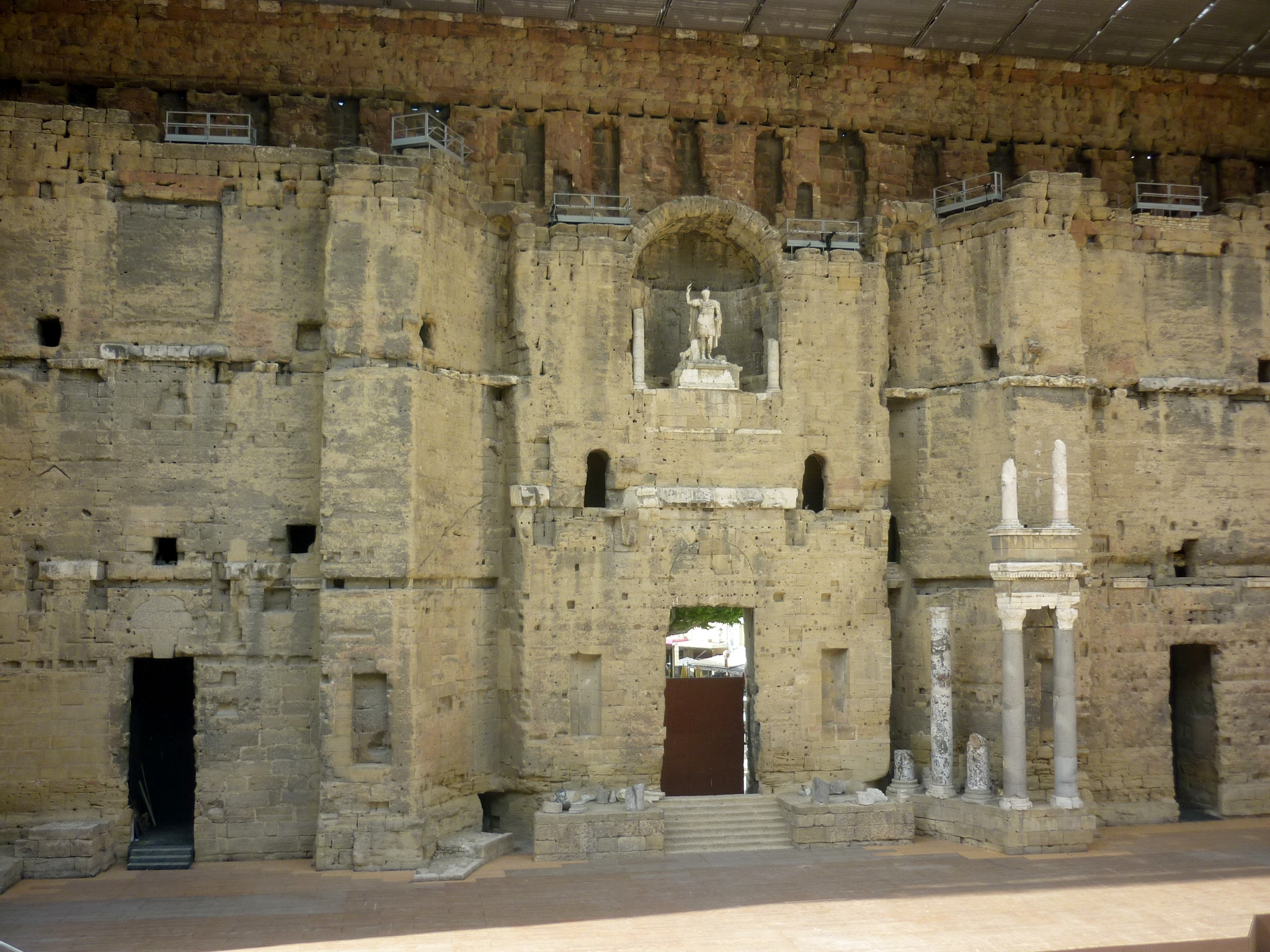 Ancient theatre of Orange